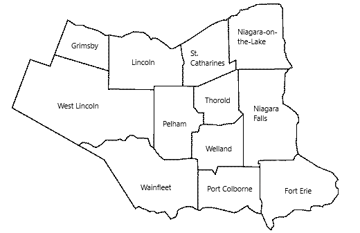 Map of Niagara Region, Ontario, showing its constituent municipalities. Based on an image created by user Snickerdo, uploaded by user Mattes, that has been released into the public domain.